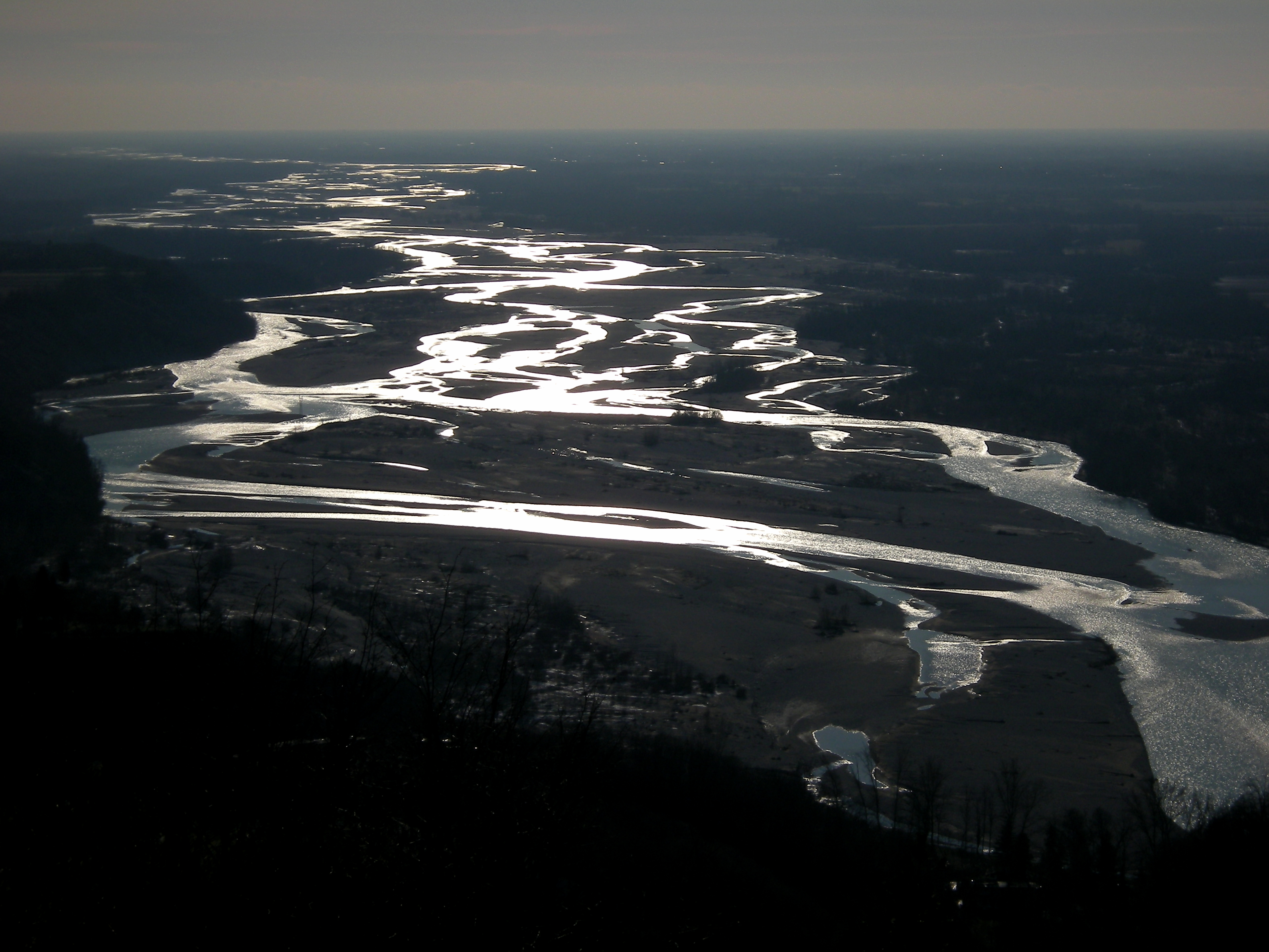 The braid channels of Tagliamento river